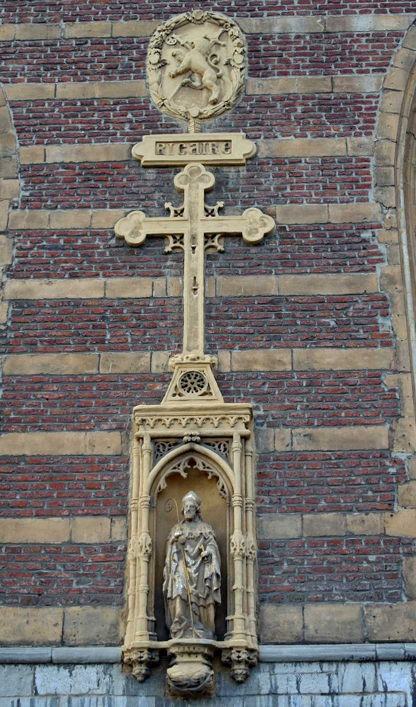 Liège, Belgium. Detail of the south side of Saint Servatius Church with statue of Saint Servatius, cross and coat of arms of bishop Richer, who allegedly built the first church on this site in 933.